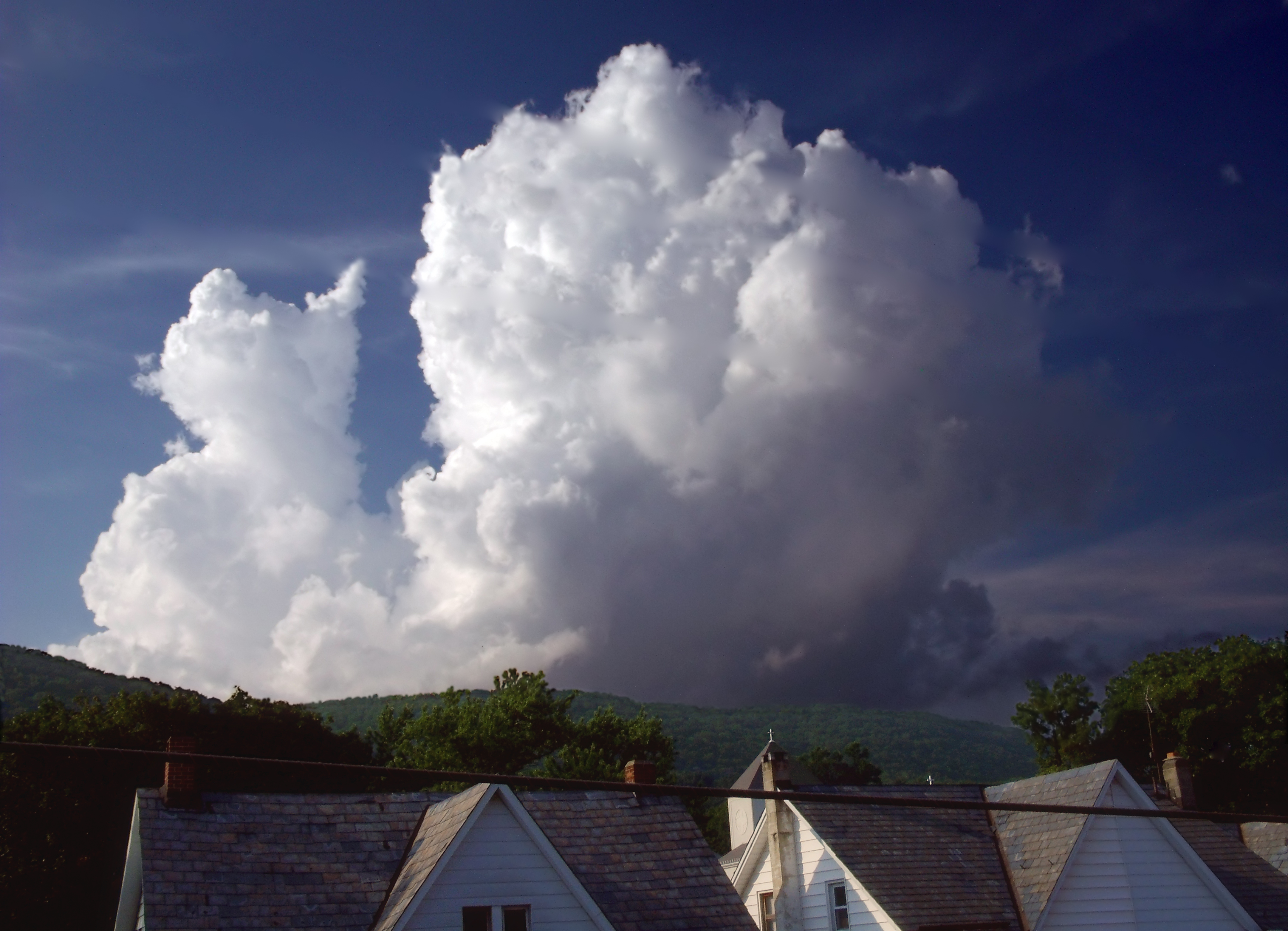 Late-afternoon cumulonimbus cloud. The feline-looking outlier, to the left of the main cloud, stayed intact for only a few minutes.